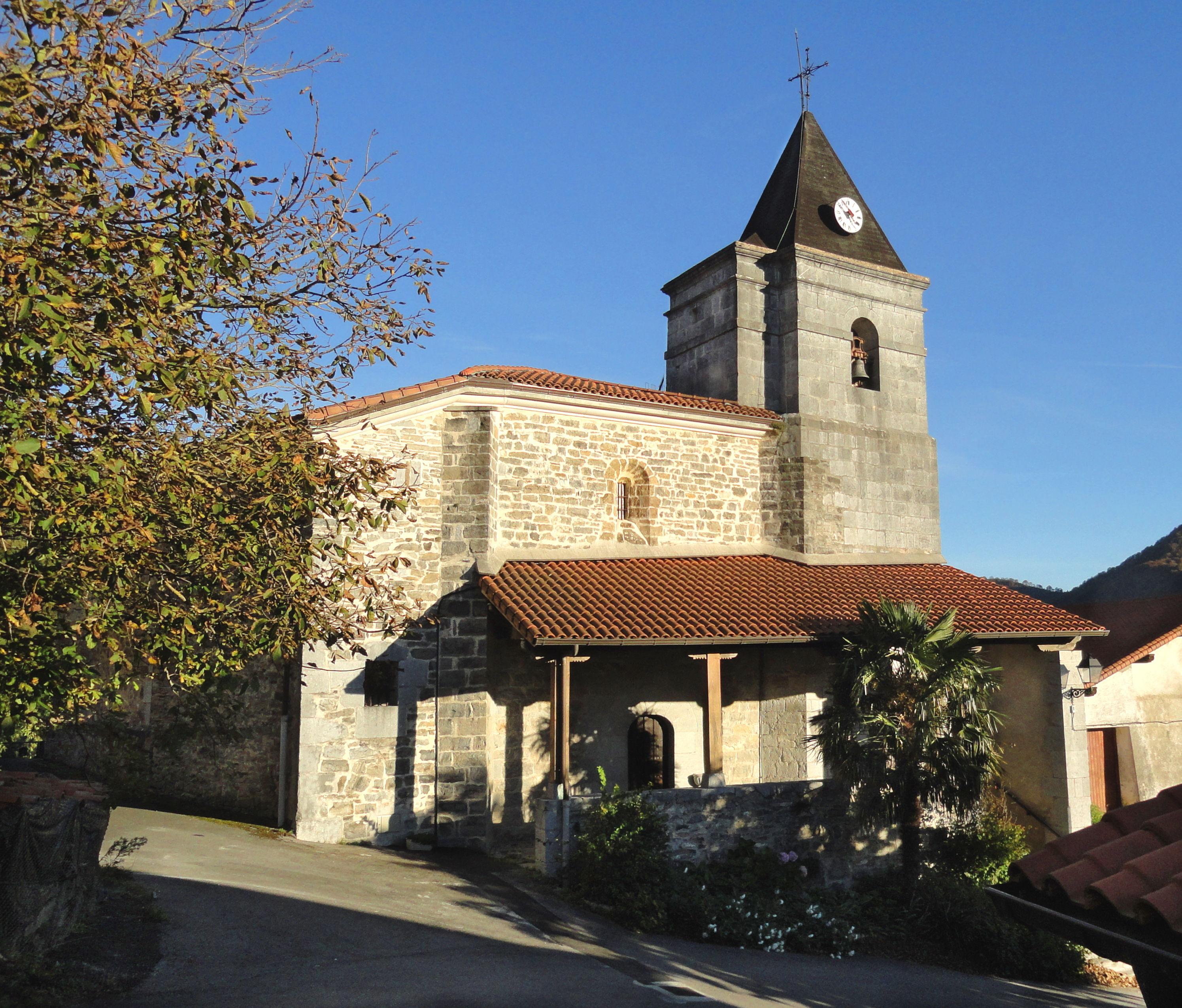 Santa Kutz church - Orexa